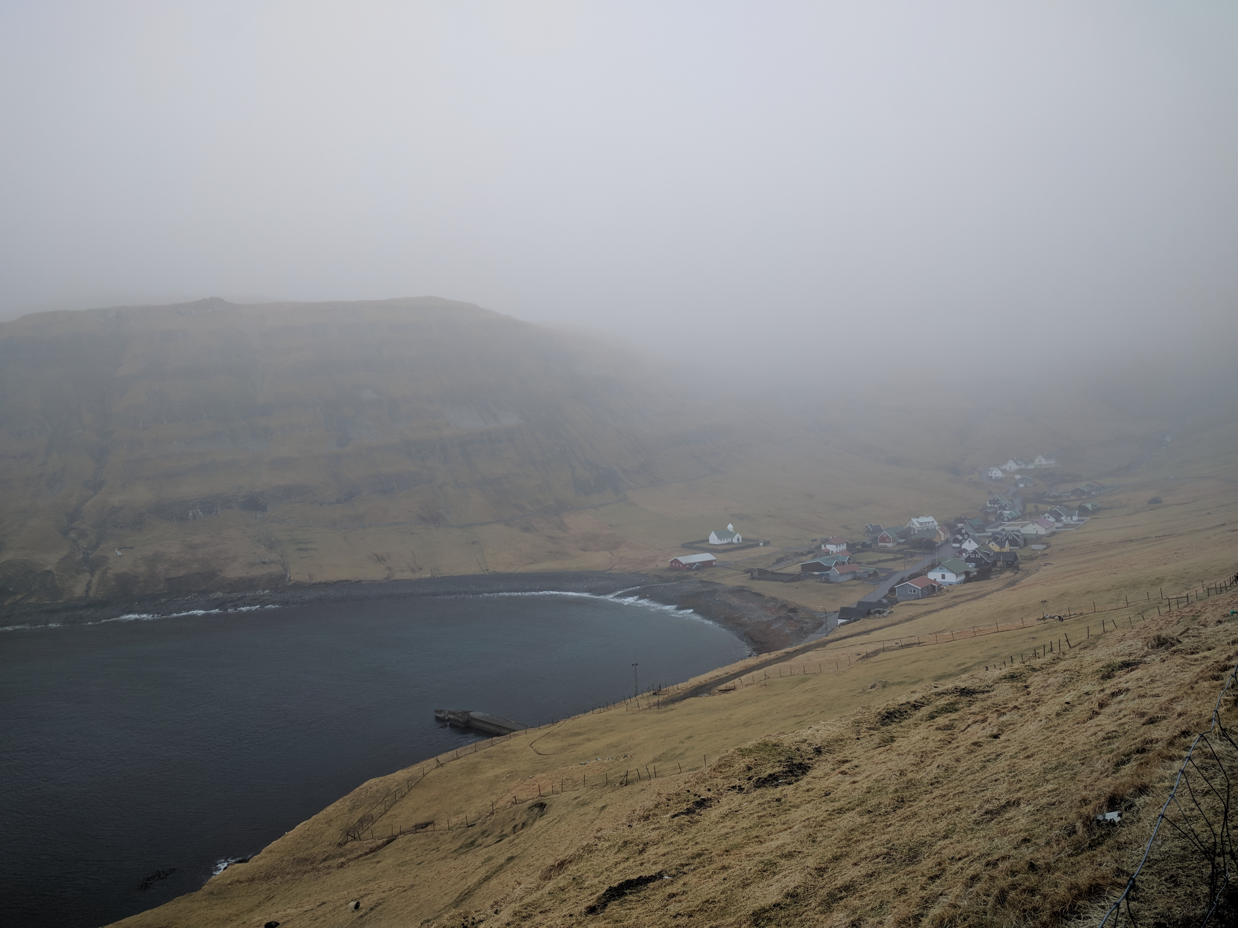 Village visited in March during typical humid conditions for the season.